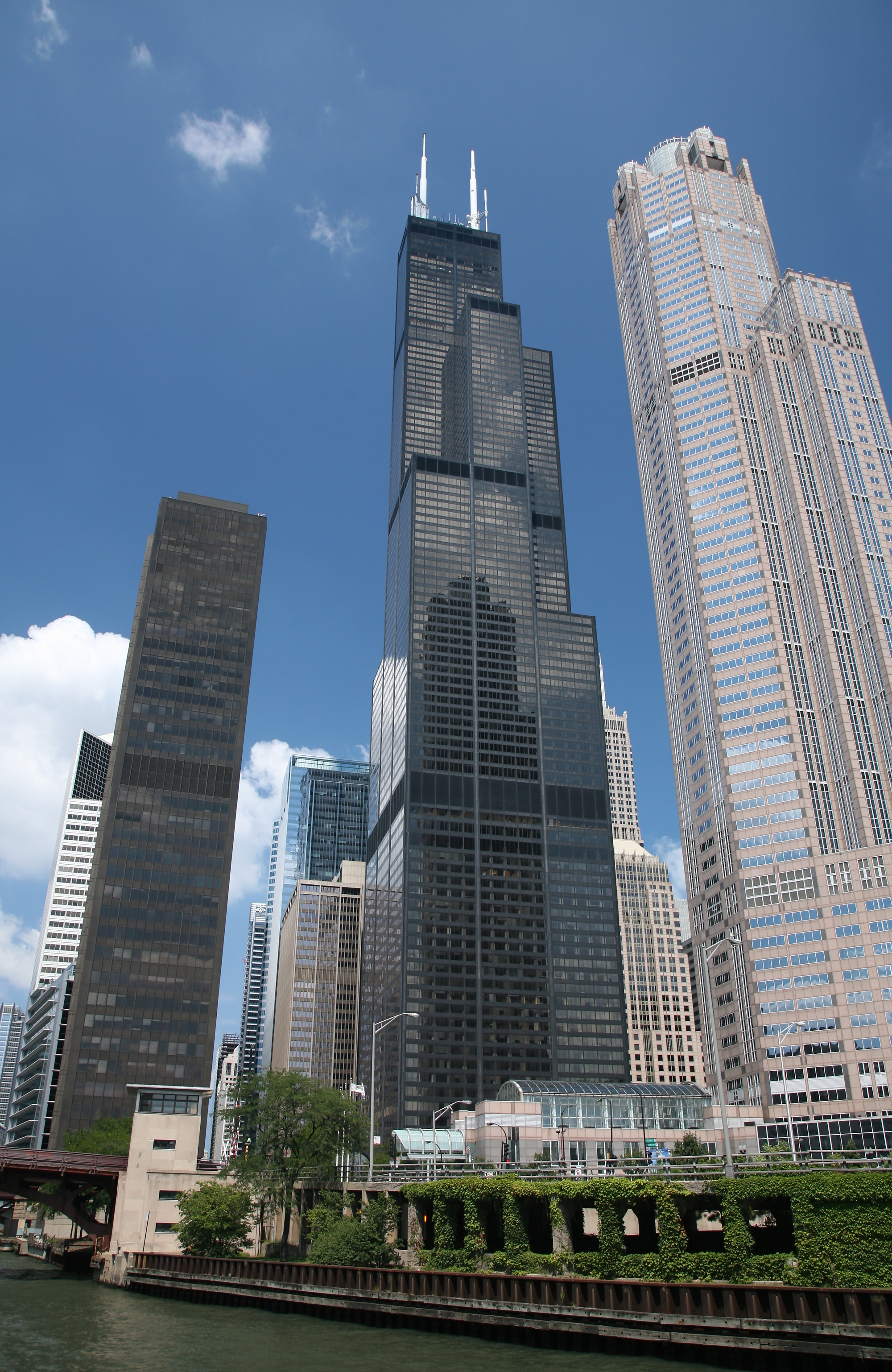 Willis Tower (formerly Sears Tower) in Chicago as seen from the Chicago river